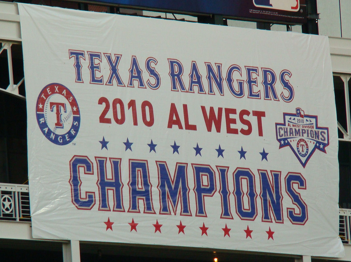 2010 Texas Rangers Western division banner